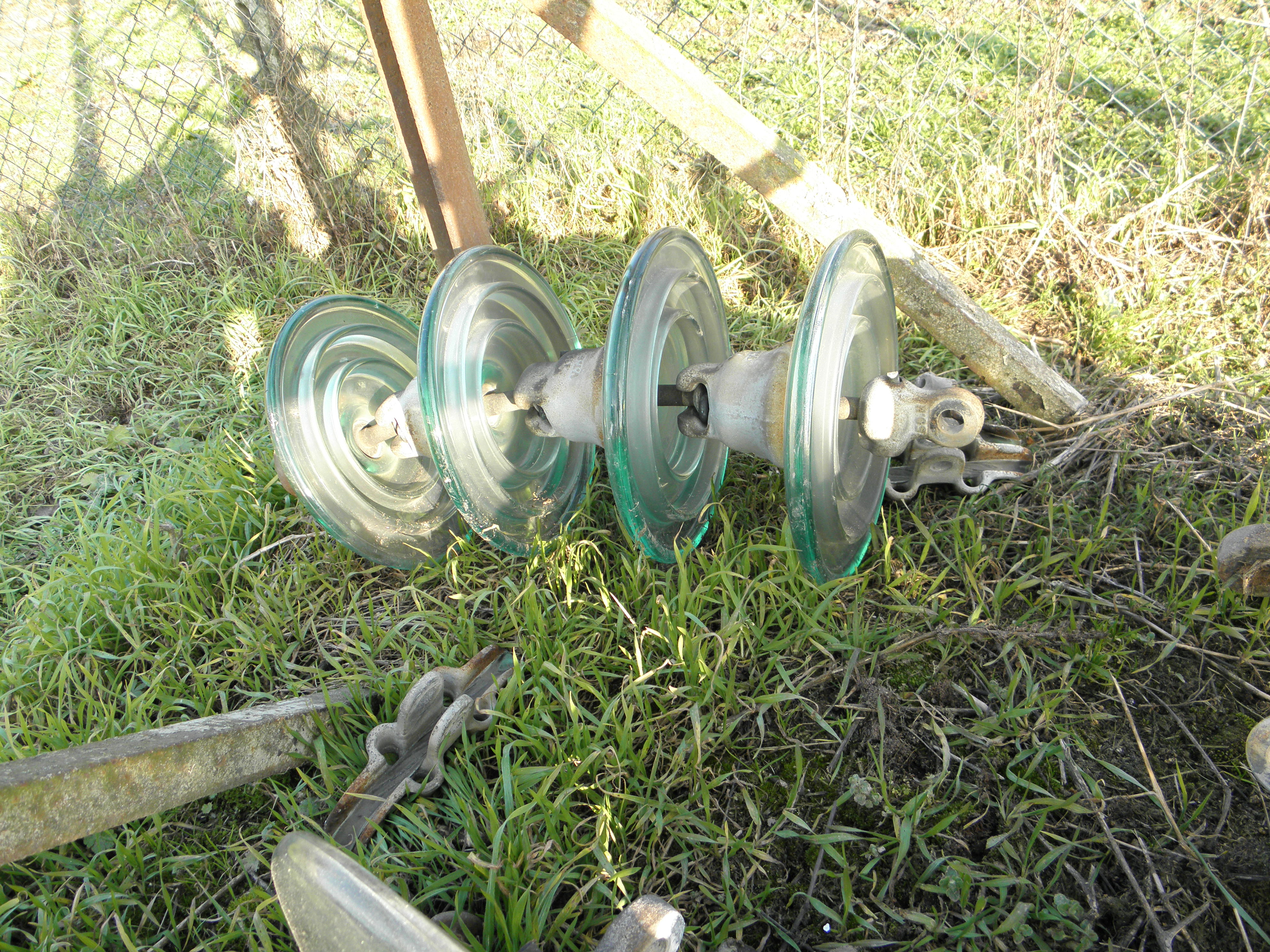 Chain suspension of high tension electric glass insulator in italian service.